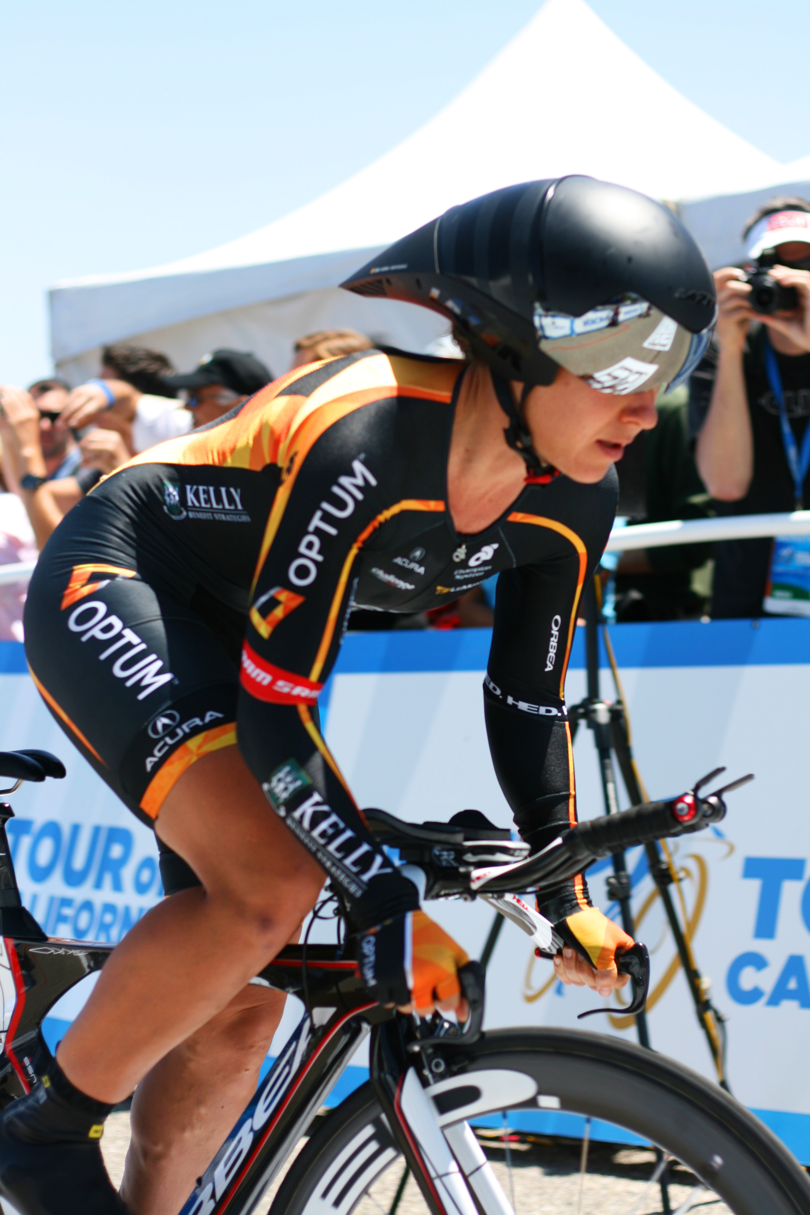 Amgen Tour of California 2013 San Jose Women's Individual Time Trial Friday May 17 2013 Jade Wilcoxson at the race start on Bailey Road.